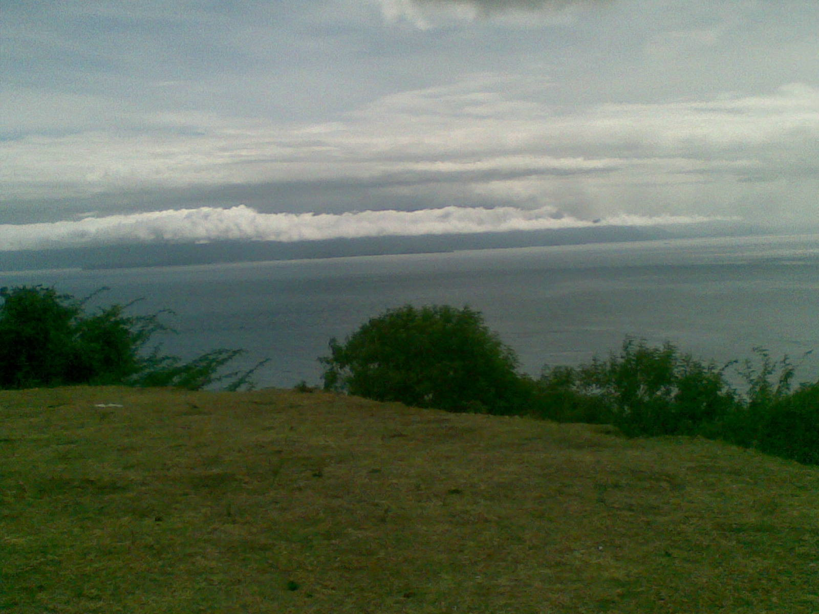 This image depicts the Verde Island Passage from Monte Maria, Brgy. Pagkilatan, Batangas City, Philippines. Overlying clouds far of the passage shows the mountains of the Island of Mindoro. Tagalog: Ipinapakita ng larawang ito ang Daang Katubigan Isla Verde mula sa Monte Maria, Brgy. Pagkilatan, Lungsod ng Batangas, Pilipinas. Ang mga ulap na mababanaagan sa dakong malayo ng katubigang daan ay nagpapakita sa Isla ng Mindoro.